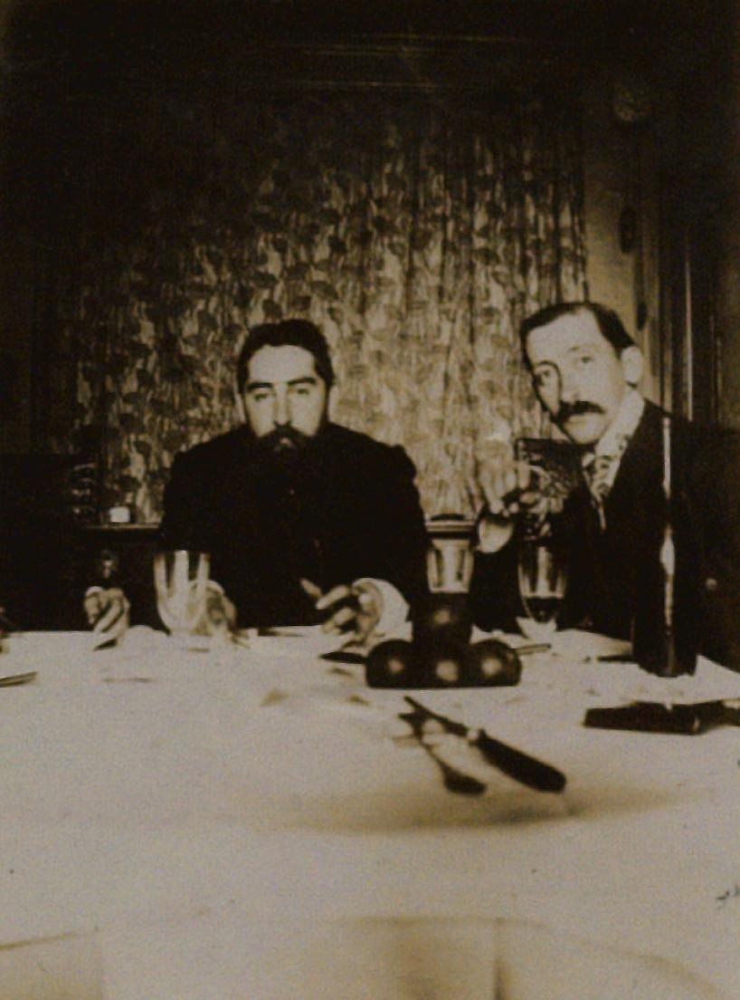 Ramon Casas i Miquel Utrillo.